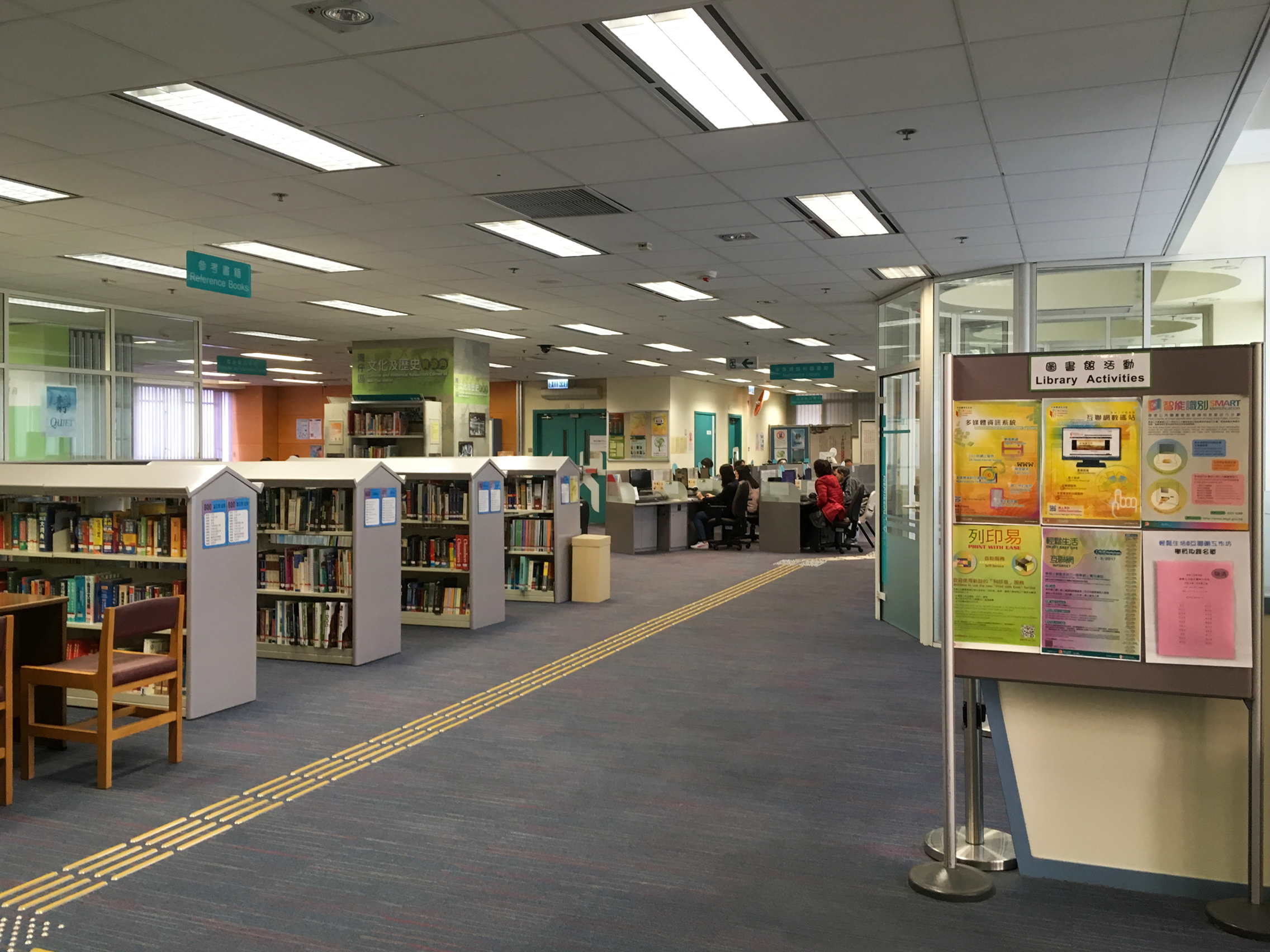 Lockhart Road Library Level 4